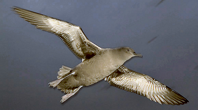 Sooty Shearwater (Puffinus griseus) The Snares, New Zealand Image taken in the evening (with flash), over the North East Island's forest canopy